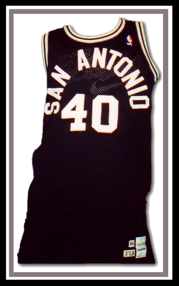 Willie Anderson game worn San Antonio Spurs away uniform from the 1988–89 season. The Spurs wore the rounded black and white lettered uniforms from c.1983–1989. This authentic jersey is made by Sand-Knit.